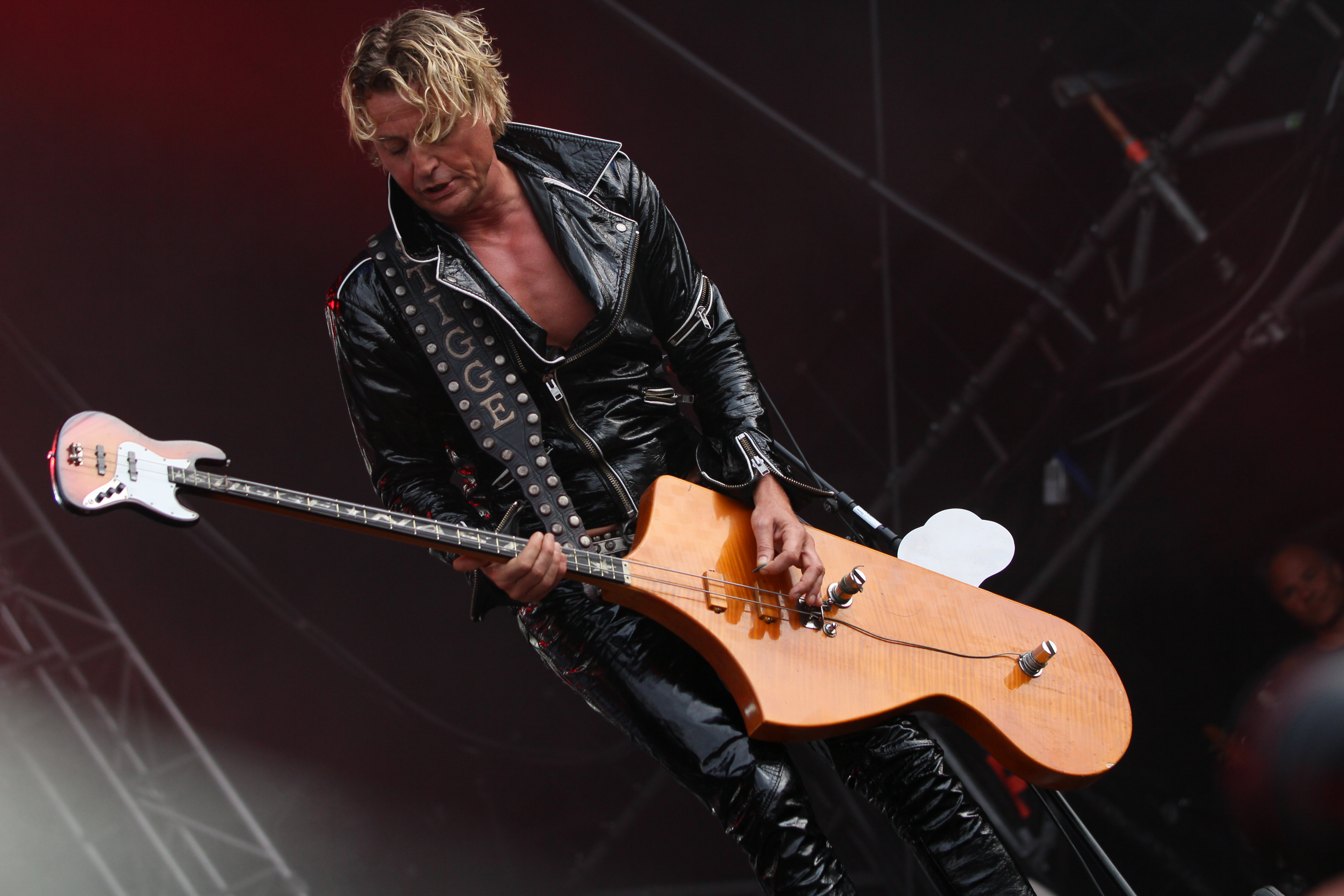 The Danish rock band D-A-D at the Rockharz Open Air 2014 in Ballenstedt/Germany